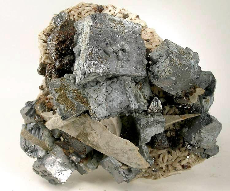 Galena, Sphalerite, Dolomite, Marcasite Locality: Treece, Picher Field, Tri-State District, Cherokee County, Kansas, USA (Locality at ) Size: 12.9 x 12.4 x 5.4 cm. A classic cabinet combination specimen from the Tri-State District of Kansas. Sharp, moderately lustrous, battleship-gray galena cubes to 3.7 cm are scattered on the silicified limestone matrix plate covered with dolomite rhombs. Complimenting the galena cubes are ruby-jack sphalerite crystals to 2.5 cm, an interesting, brecciated matrix fragment and a dusting of sparkly marcasite crystals. Old-time and excellent, large combination material from this renowned locale.